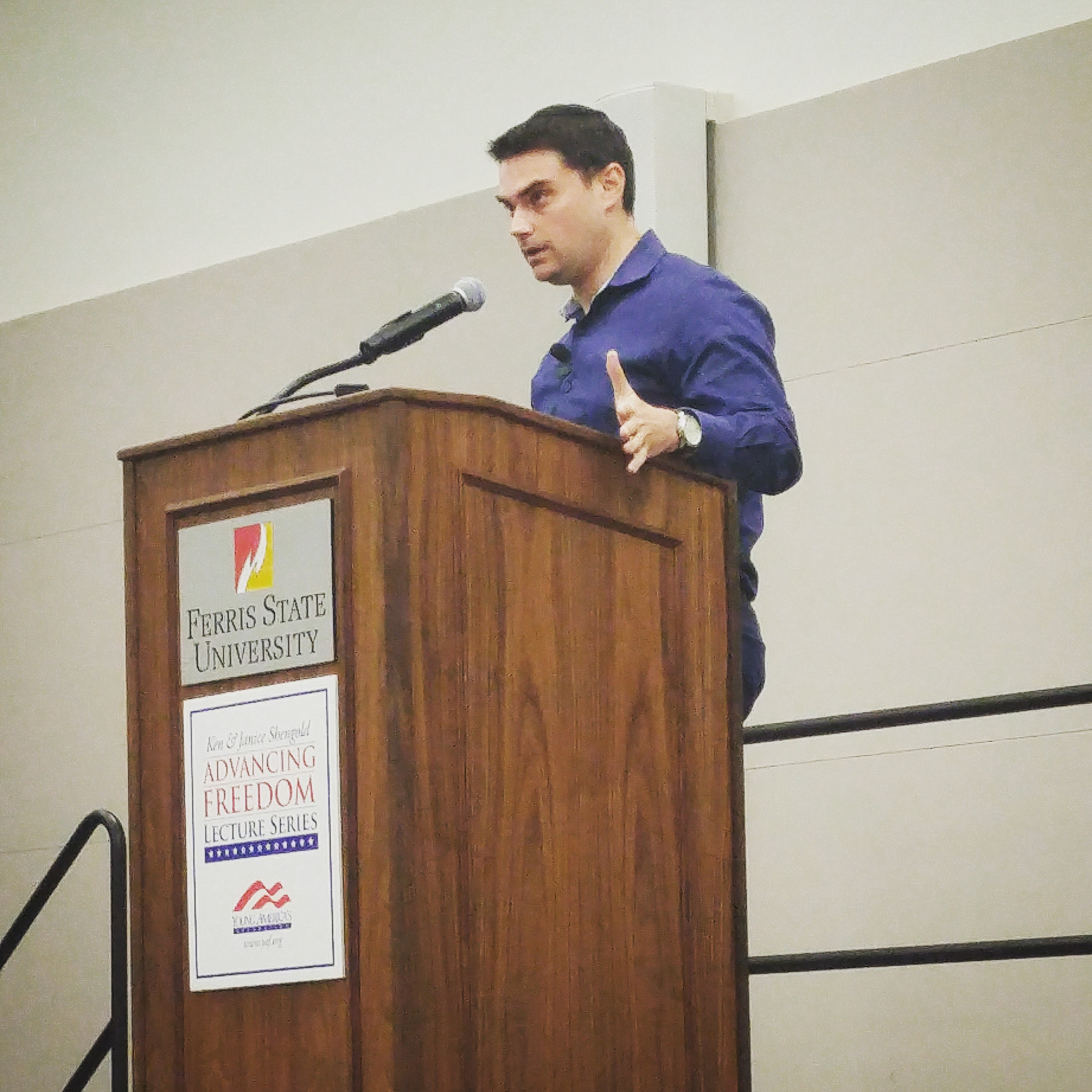 This is an image depicting Ben Shapiro giving a speech at Ferris State University, Big Rapids, MI.